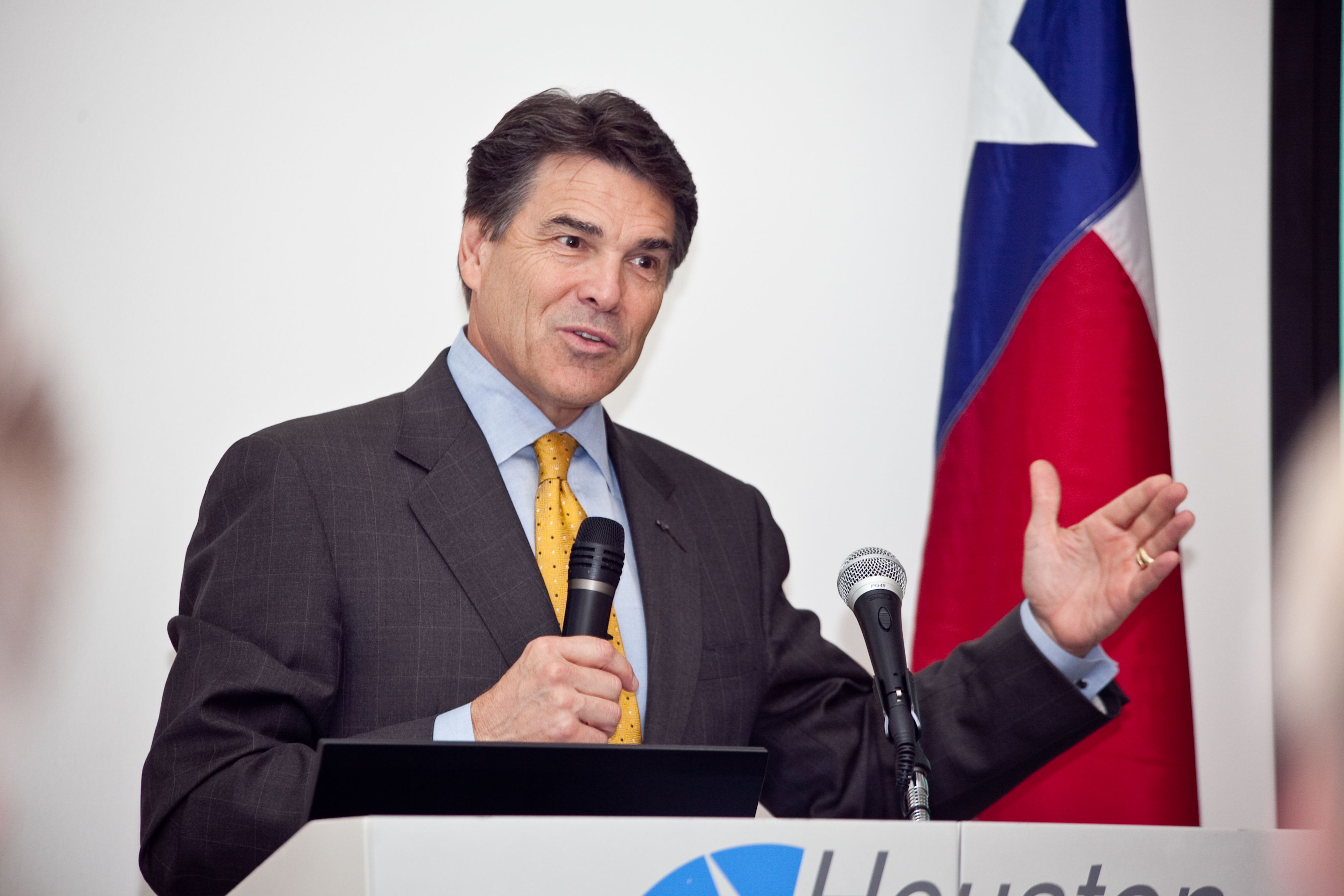 Texas Governor Rick Perry speaking at the Houston Technology Center. Full Creative Commons gallery at TETF Awards on the HTC site.